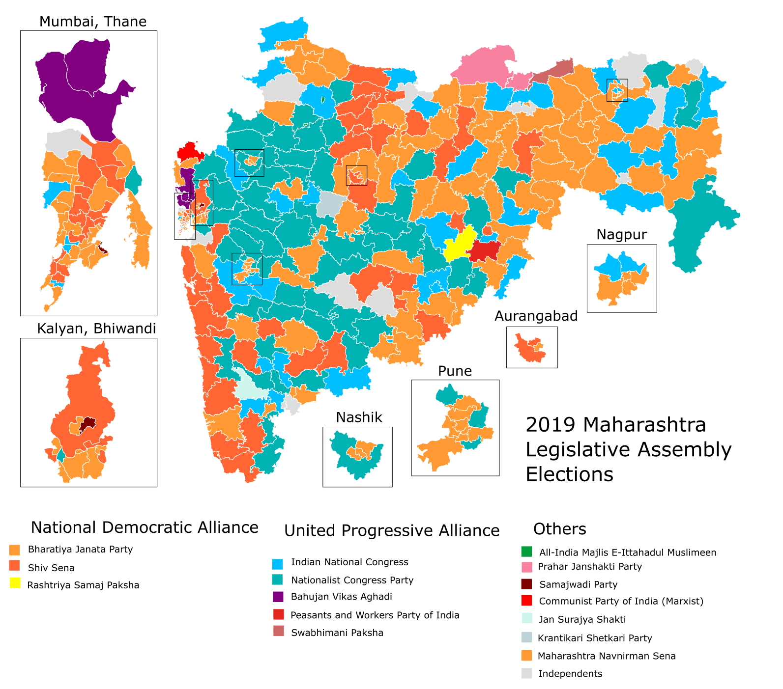 Map of Maharashtra Legislative Assembly Constituencies